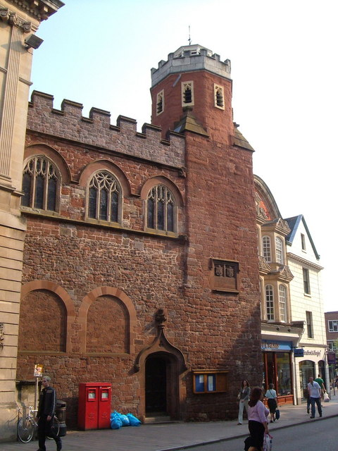 St Petrock's church, Exeter. "The interior is among the most confusing of any church ... in England" (Cherry and Pevsner). The red sandstone church dates in part from the C15 but was much rebuilt in the C19. Octagonal turret, 1737. The high windows indicate that the church was completely hemmed in until road widening in 1905 (an activity which obviously didn't affect 167378.)